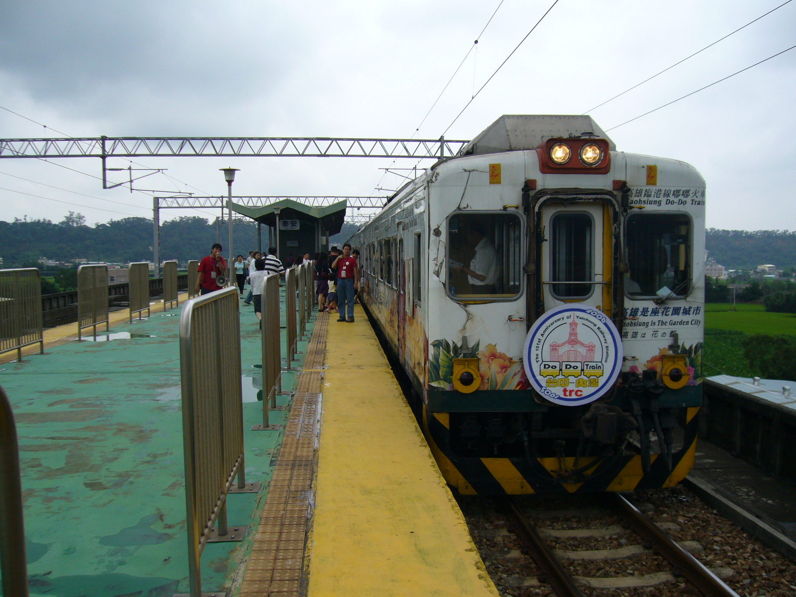 Tze-Chang at Tai-An Station, Taiwan